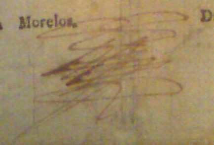 The signature of José María Morelos